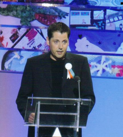 Image of Paul Griffiths (Wales) taken in 2008